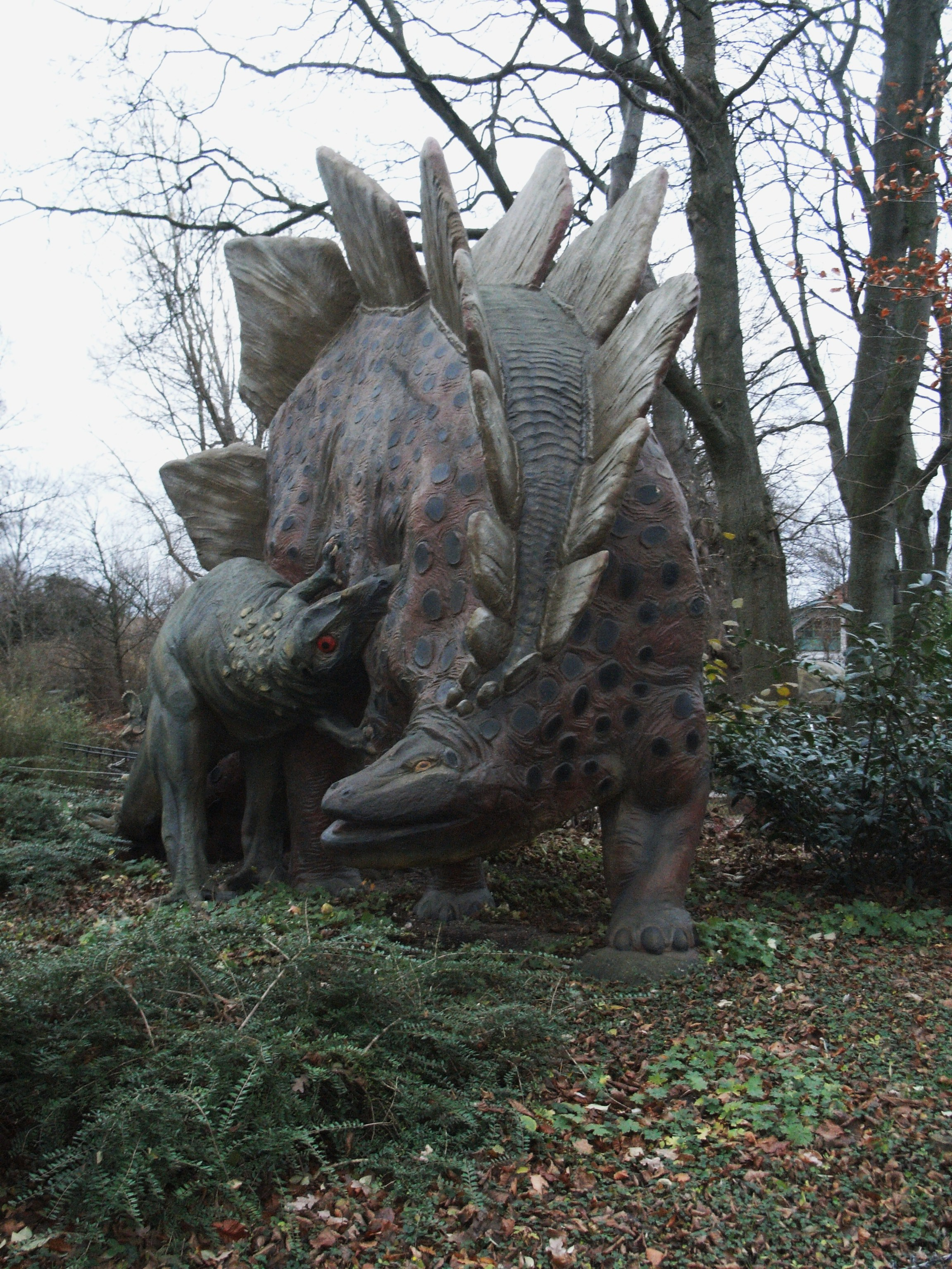 Josef Pallenberg (1882 - 1946) Dinosaur Tierpark Hagenbeck, Hamburg